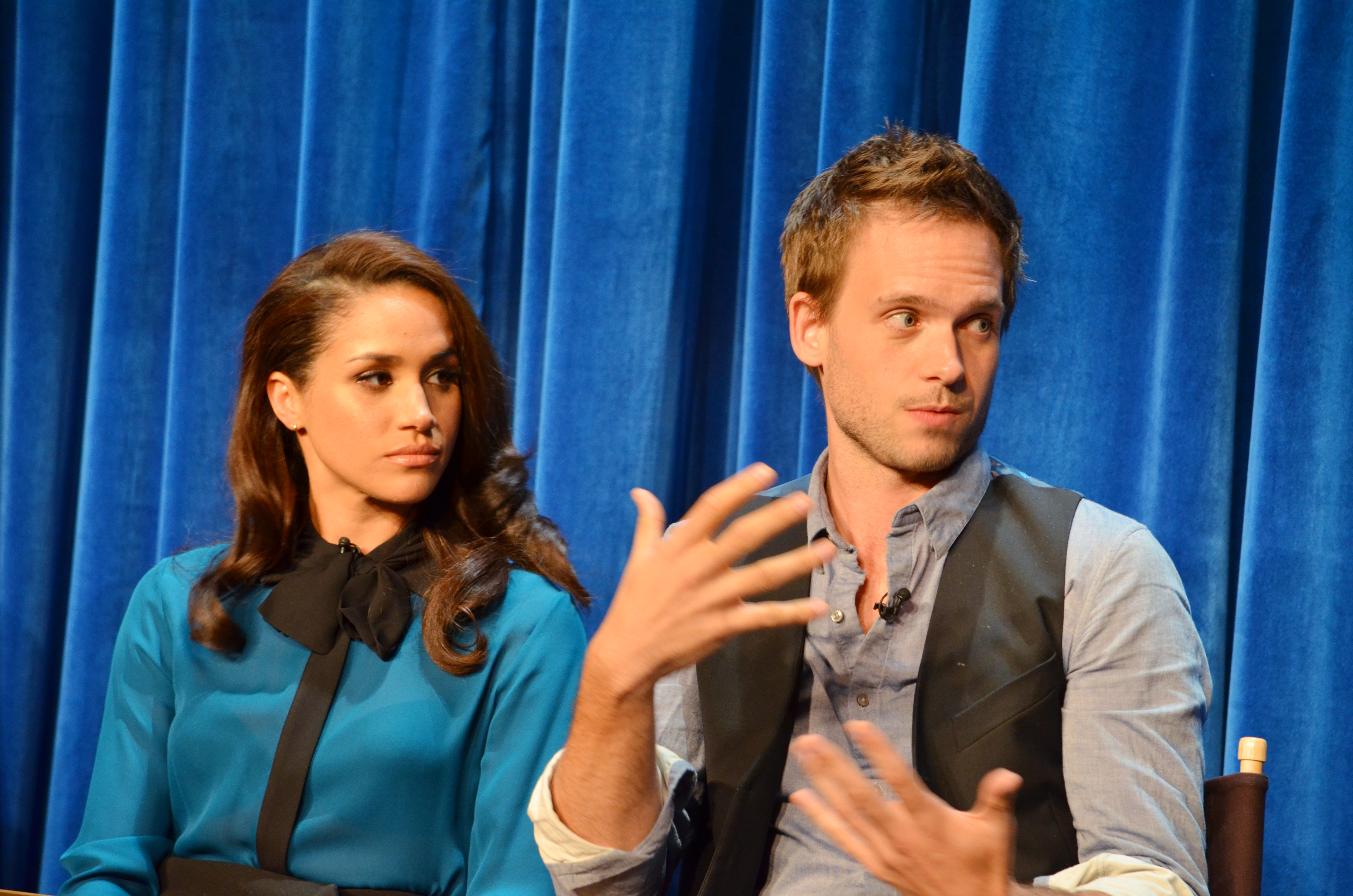 Paley Center: 'Suits' panel in 2013.